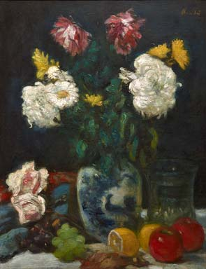 Chrysanthemums in a Chinese Vase with Phoenix by George Leslie Hunter, c. 1913, oil on canvas